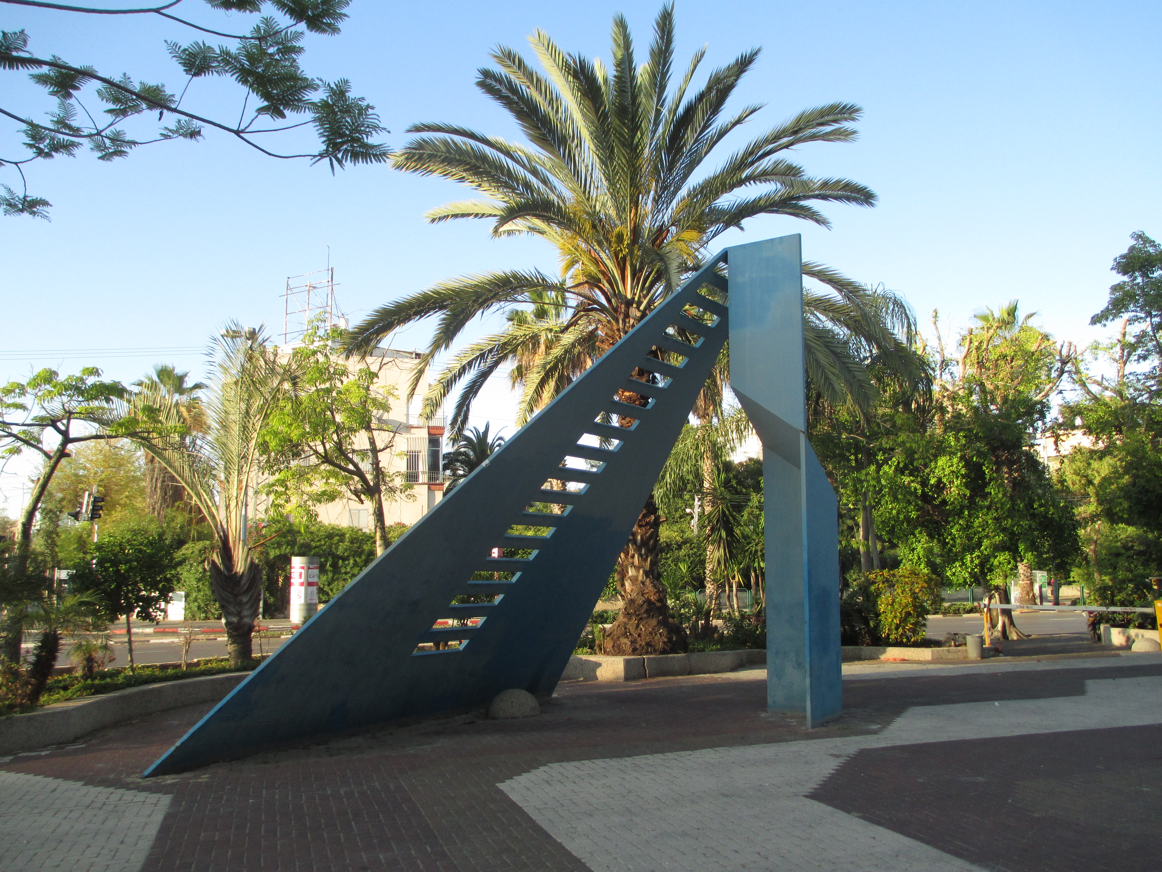 Blue Sculpture in Tel Aviv